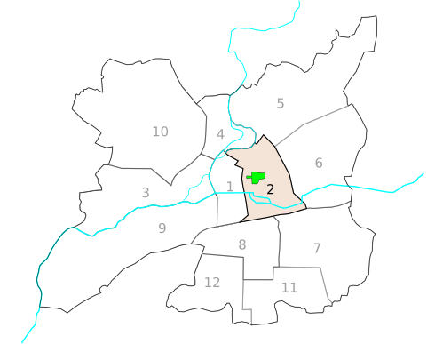 Location of the Parc du Thabor in Rennes